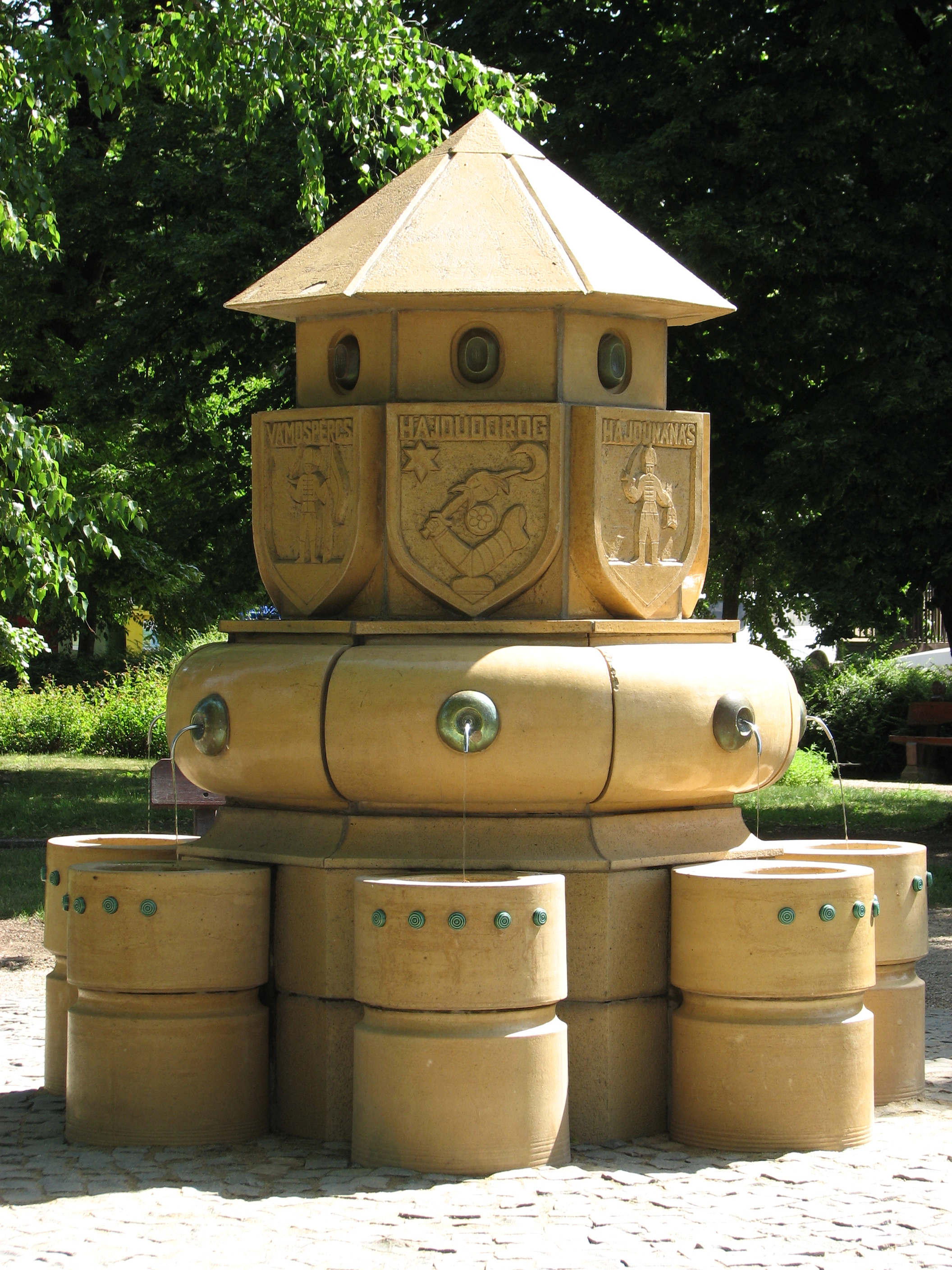 The Well of the Hajduk in Hajdúdorog, Hungary. The well was made of ceramics from the Zsolnay manufacture and it depicts the seven traditional Hajduk-towns' coats of arms (Hajdúdorog, Hajdúnánás, Hajdúhadház, Hajdúböszörmény, Polgár, Vámospércs, Hajdúszoboszló). It was erected in 1984.